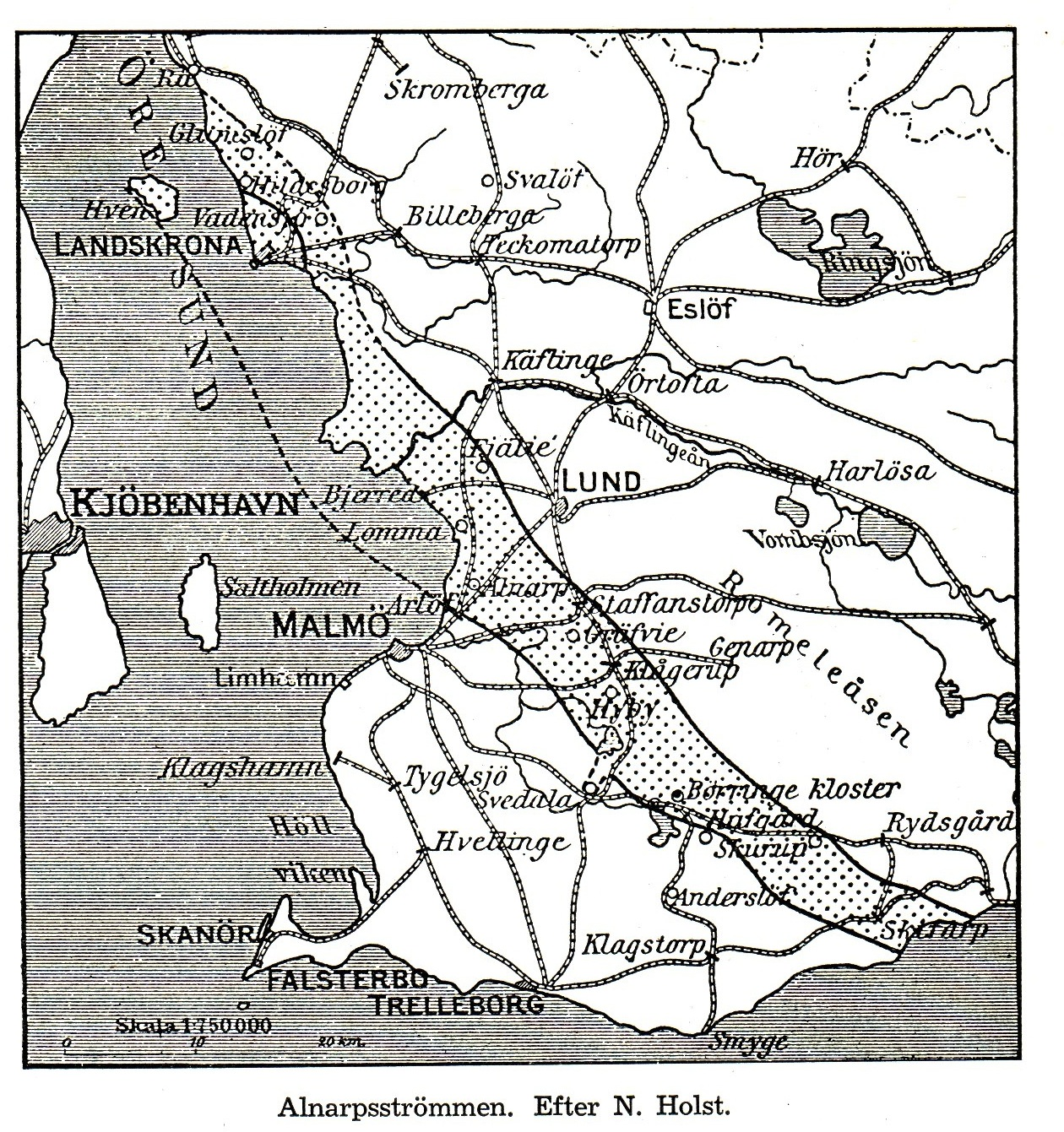 Map of Alnarpsströmmen from Nordisk familjeboks månadskrönika, Andra årgången. 1939